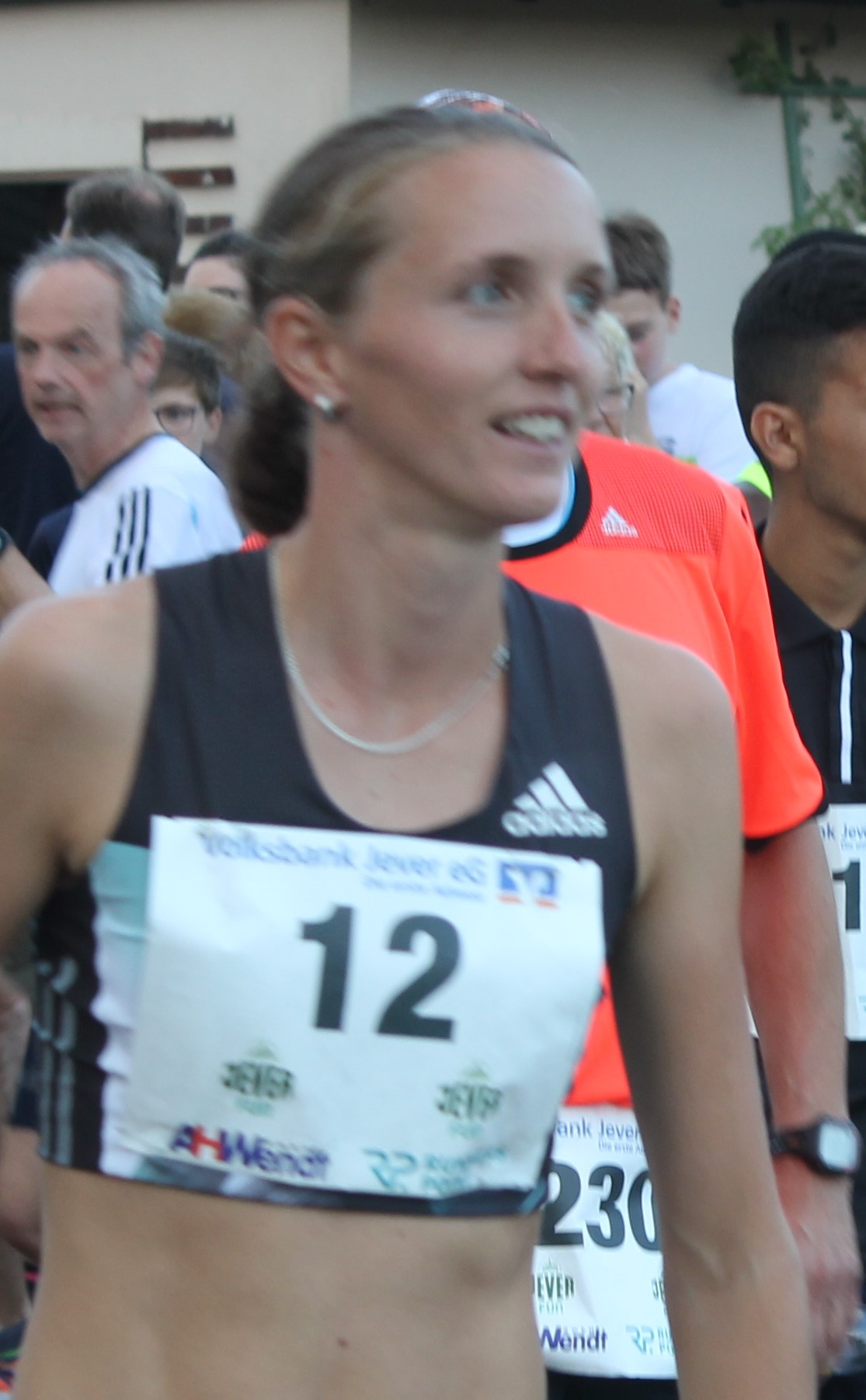 Lucie Sekanová 2016 in Schortens